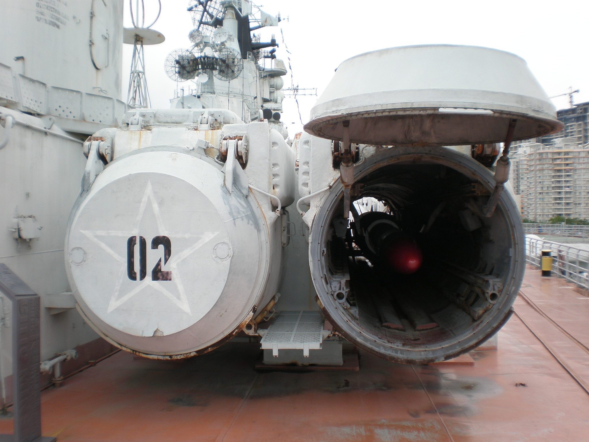 The front of SS-N-12 Sandbox launchers no. 2 and 4 on the port side of the bow of the aircraft carrier Minsk, located at the Minsk World theme park in Shenzhen, PRC.